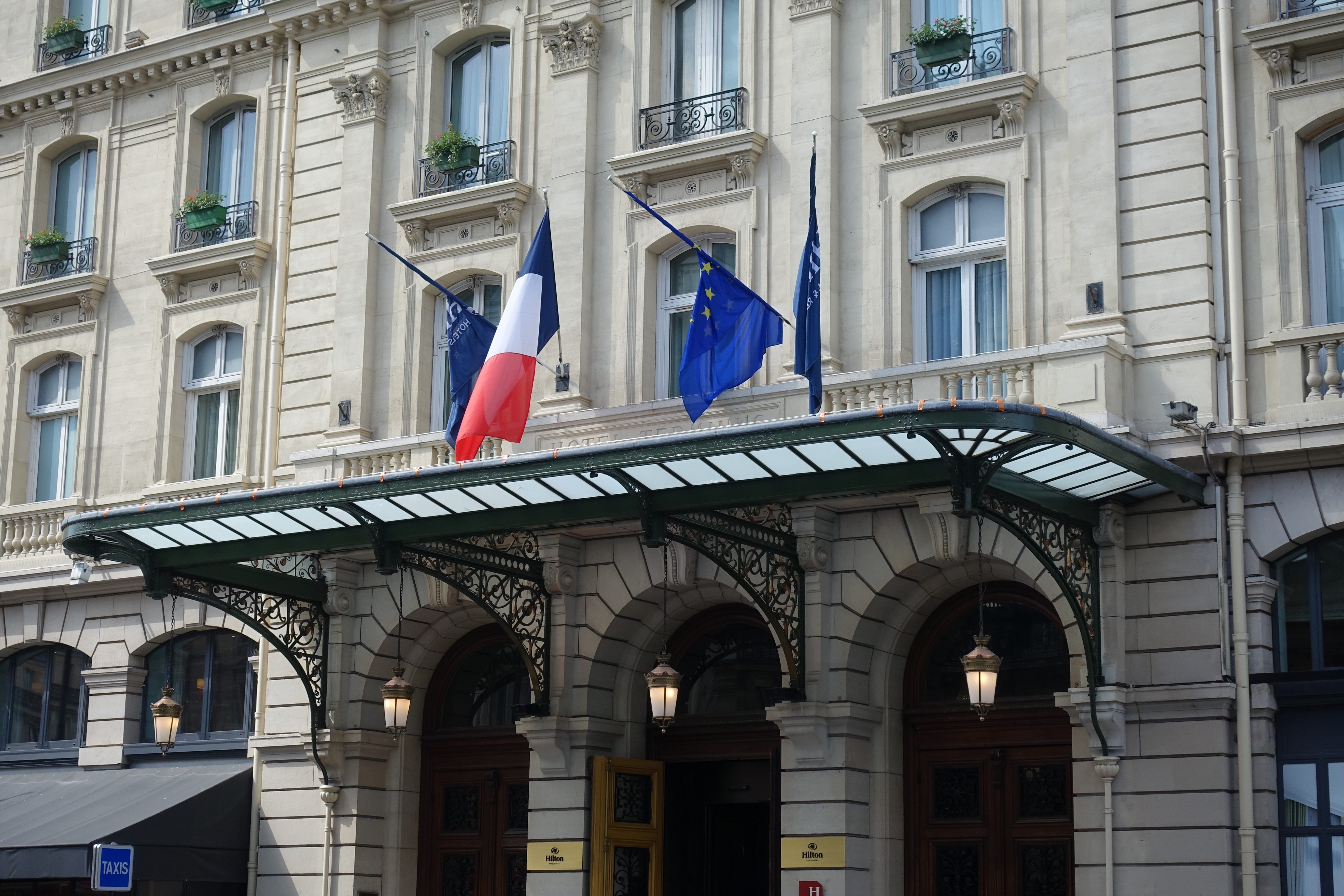 Flags @ Hilton Hotel @ Gare Saint-Lazard @ Paris